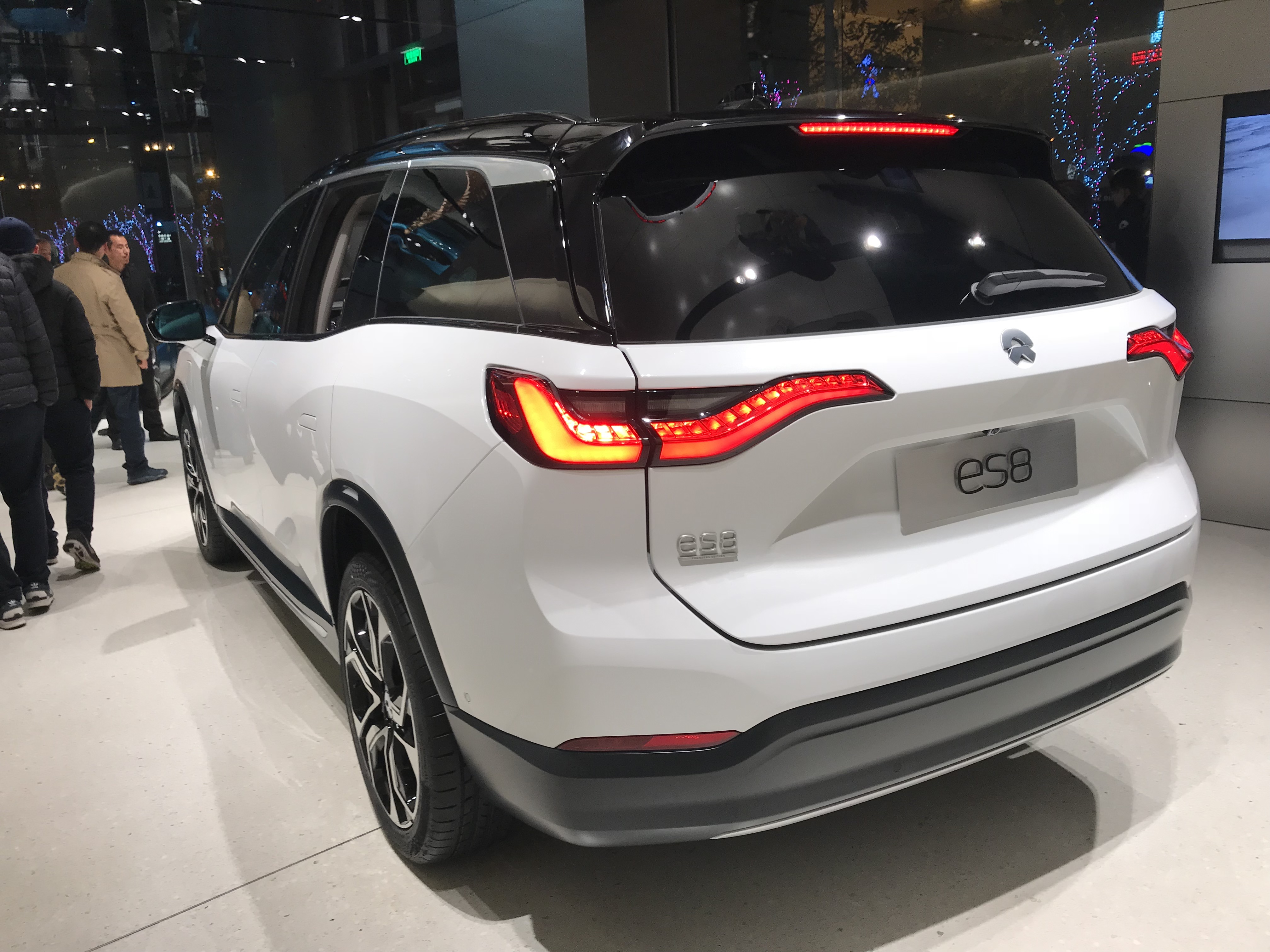 Nio ES8 rear view.